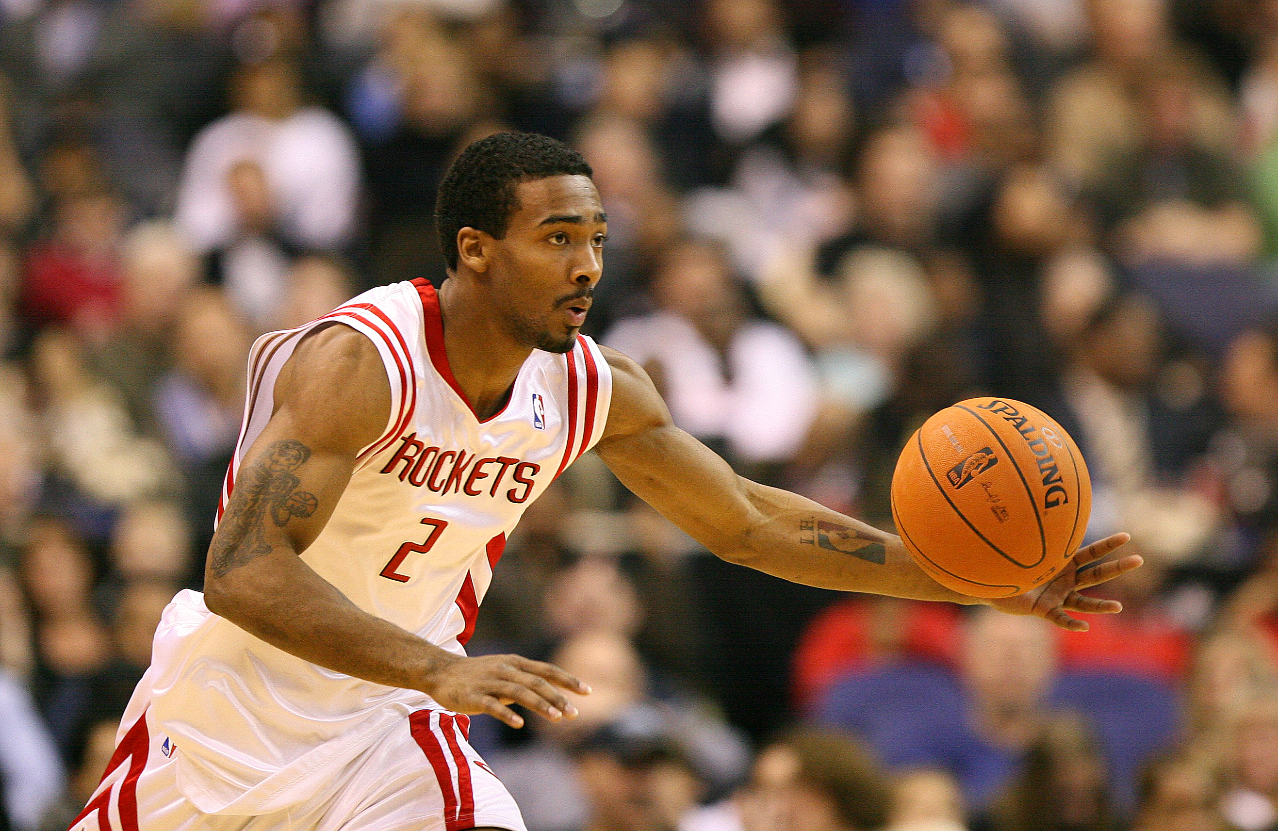 Luther Head of the Houston Rockets of the National Basketball Association (NBA)